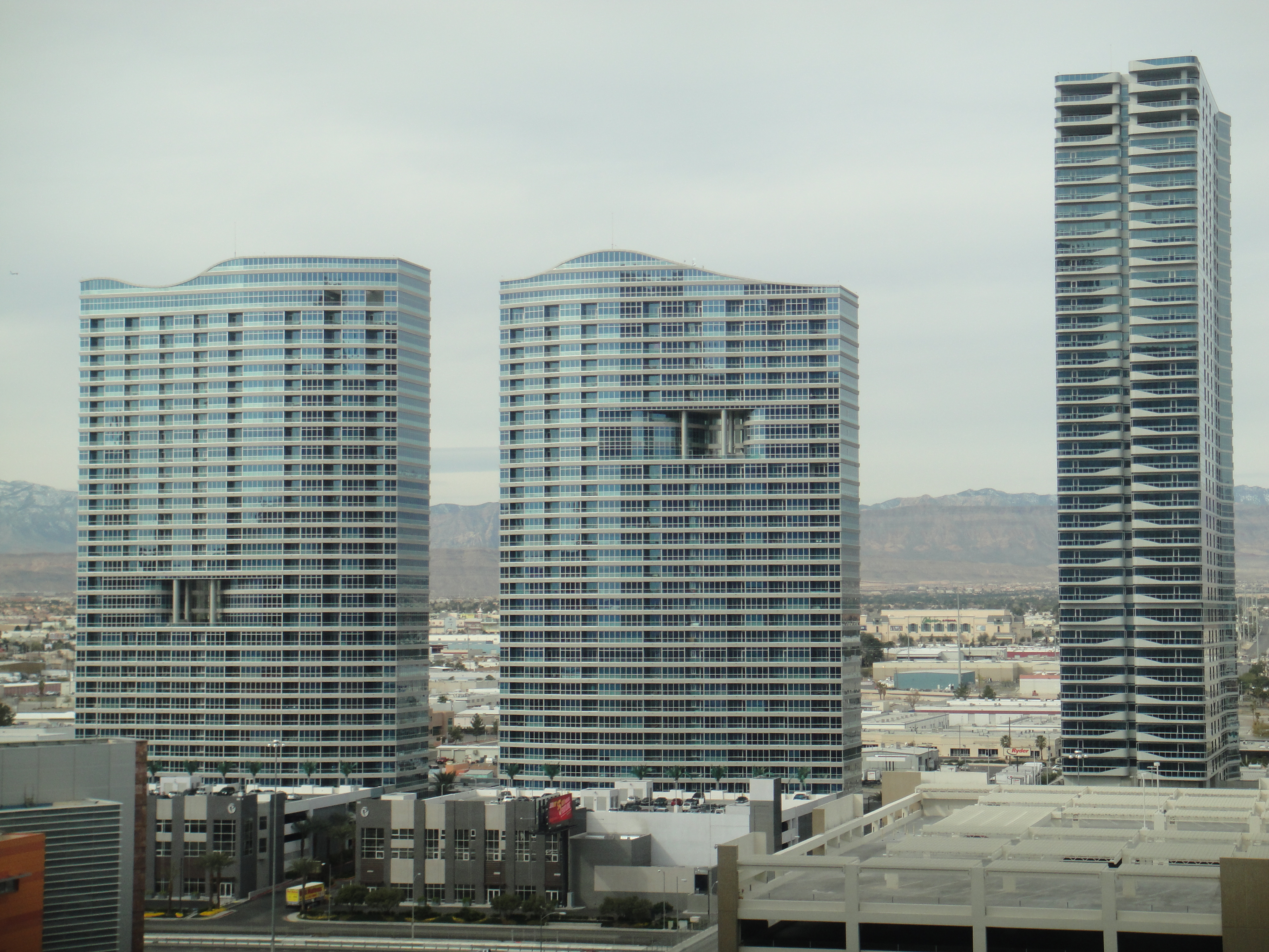 Photo of the Panorama Towers in Las Vegas, from the east in March 2010.